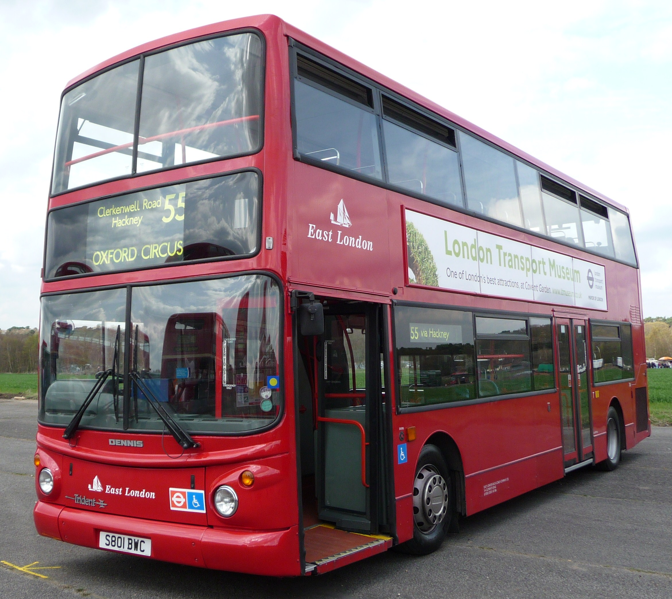 East London's TA1 (S801 BWC), a Dennis Trident/Alexander ALX400, at the 2009 Cobham bus rally at Wisley Airfield. This was the first low floor bus to be ordered by Stagecoach London (who sold to East London), so it has gained its original fleetnumber of TA1. Its proper fleetnumber is 17001.